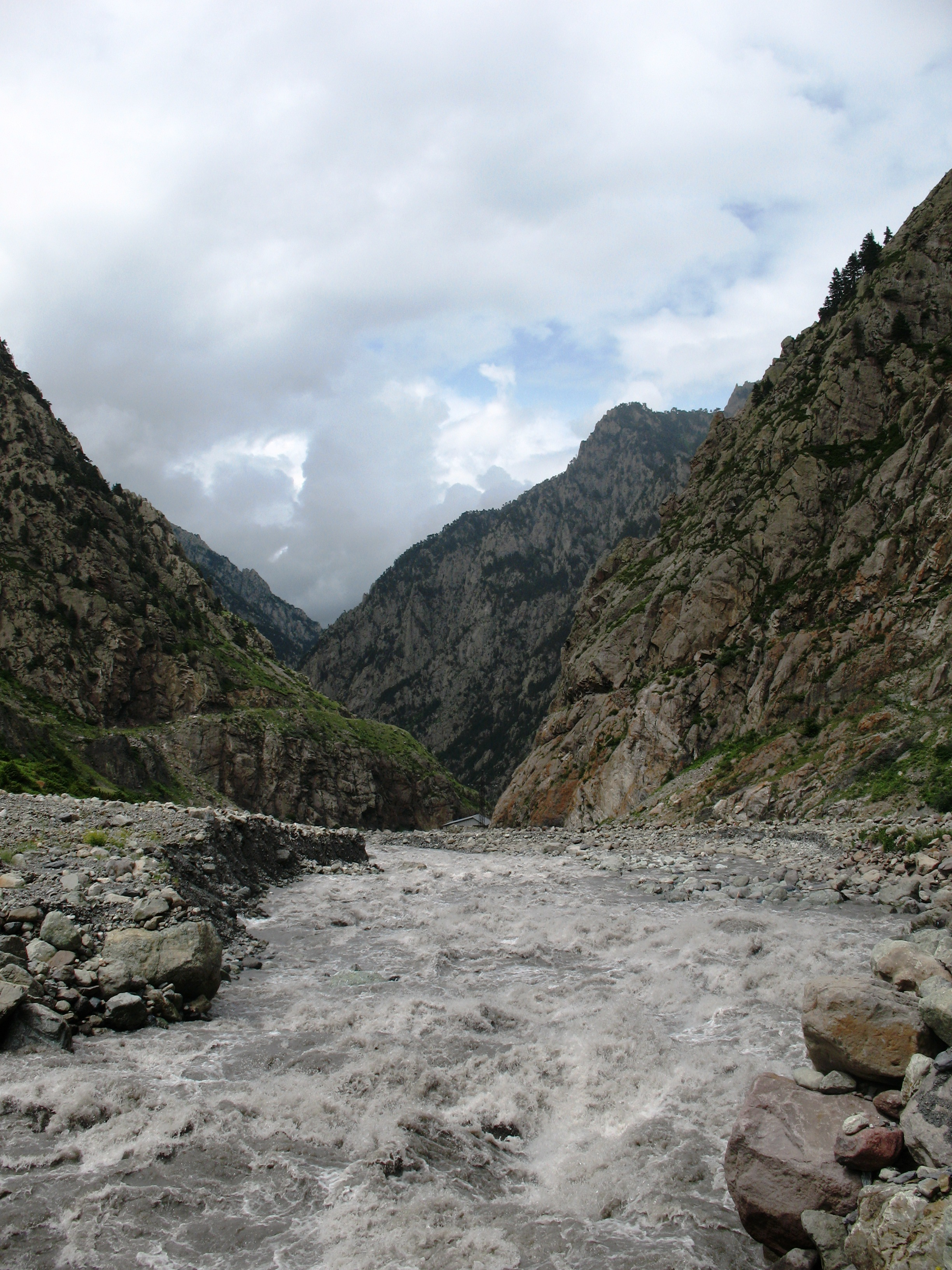 riv. Tergi